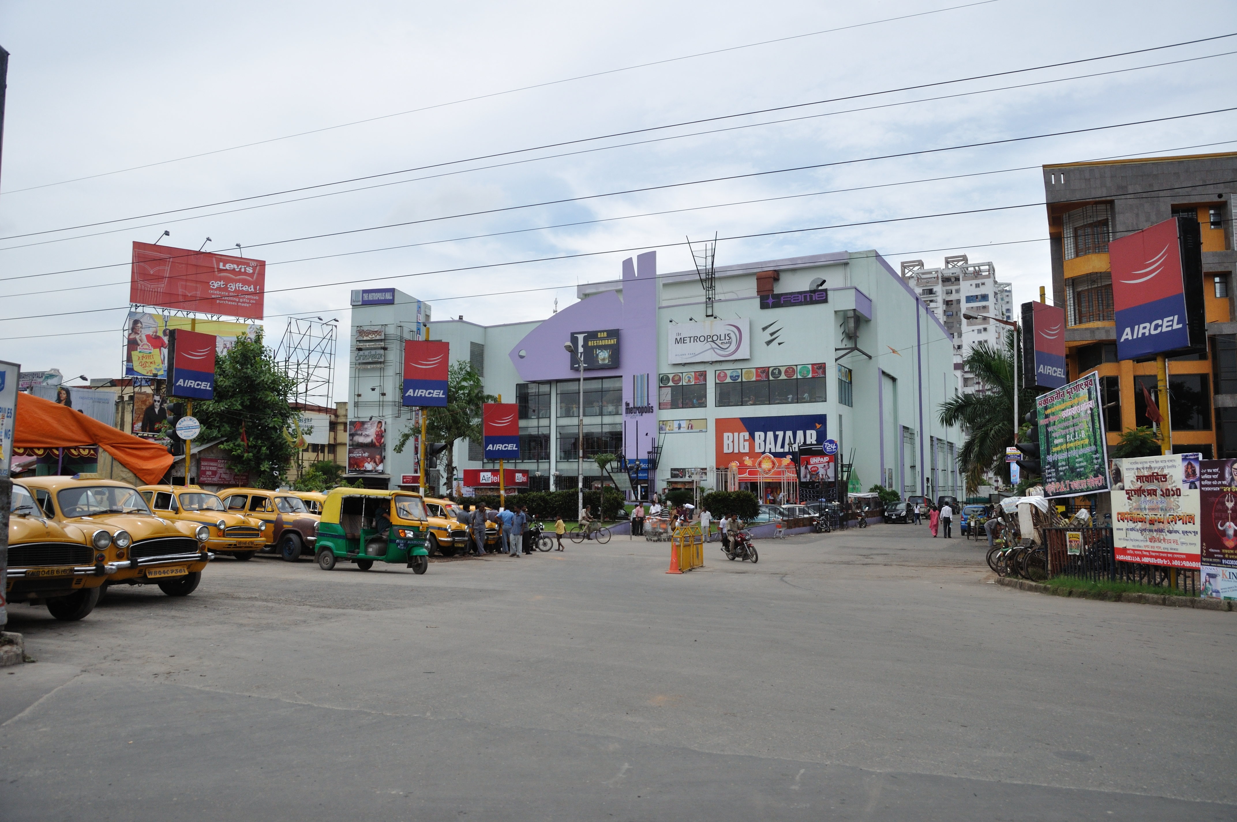 Big Bazar, is the chain of retail stores of the big banner Pantaloon Retail (India) Ltd., which in turn is a segment of Kishore Biyani, regulated Future Group of Companies. Here is a branch at the Hiland Park on Eastern Metropolitan Bypass at Kolkata.